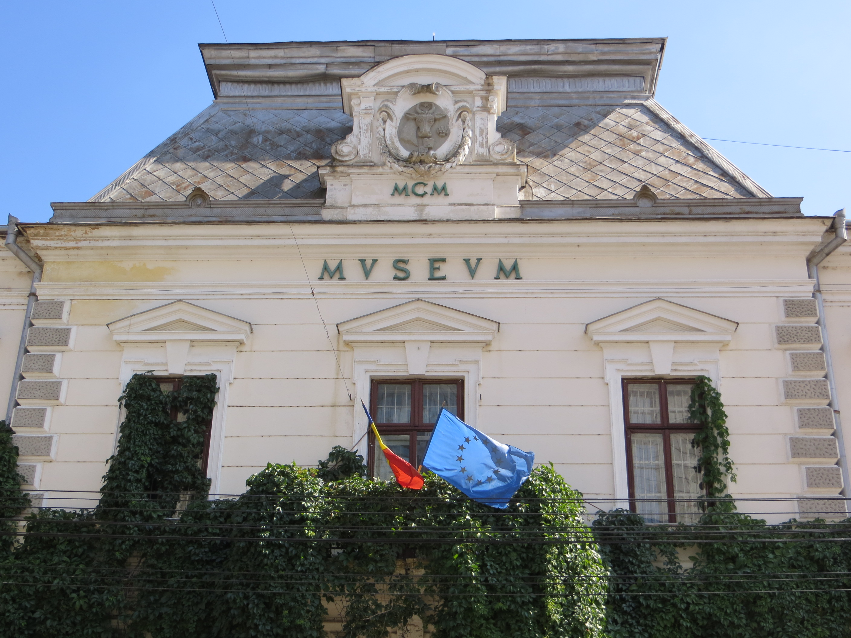 Bukovina Museum in Suceava / Suceava History Museum.